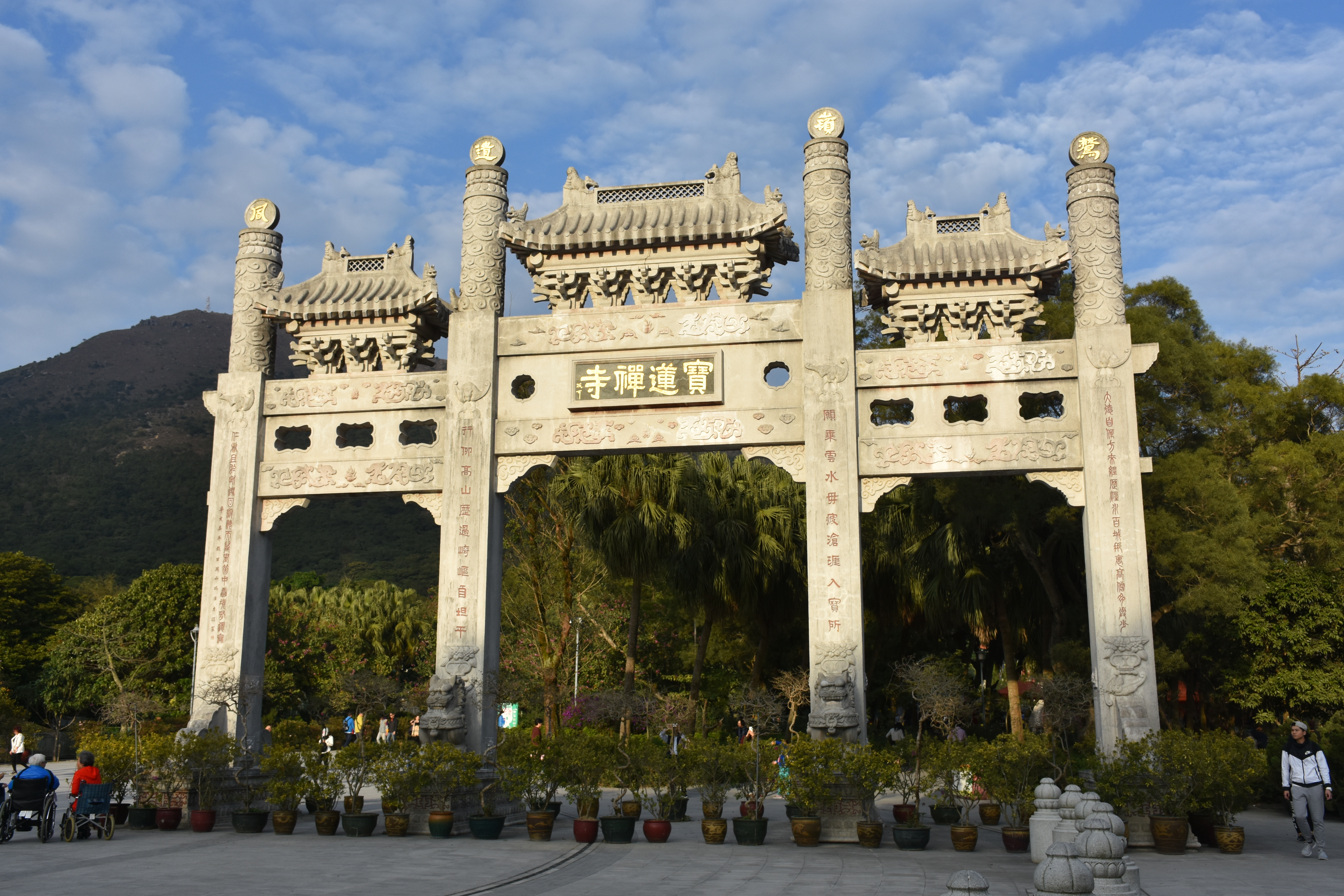 Main entrance of Po Lin Monastery